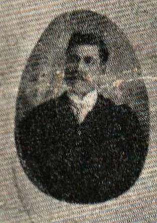 Marin Georgiev, IMARO